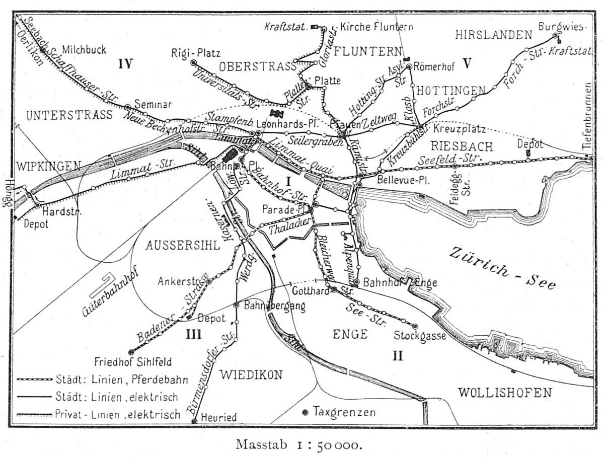 Overview map of the Zurich tram lines by 1899